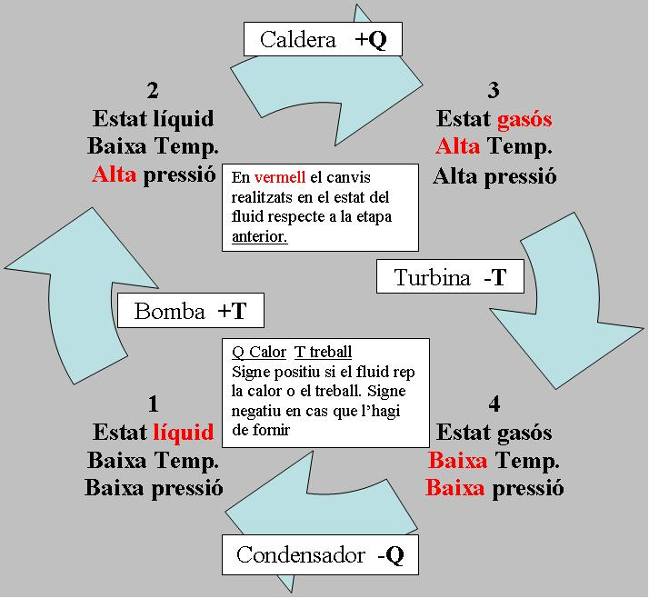 Rankine cycle: States of the fluid in the diferent stages of the Rankine cycle